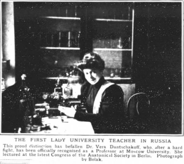 Newspaper legend "The first lady university teacher in Russia". This proud distinction has befallen Dr. Vera Dantchakoff, who, after a hard fight, has been officially recognised as a Professor at Moscow University. She lectured at the latest Congress of the Anatomical Society in Berlin. Photograph by Bolak.